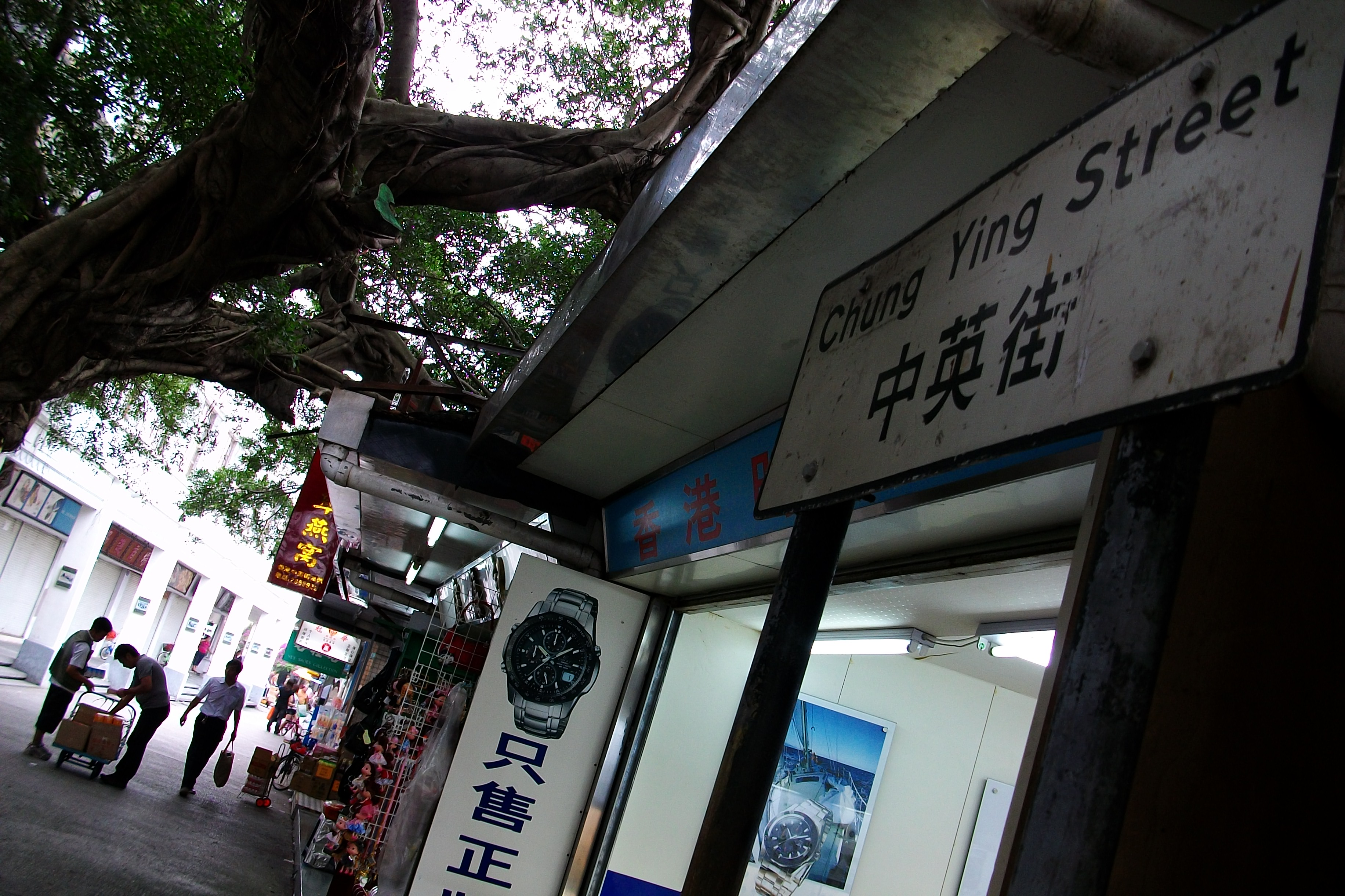 Chung Ying Street in Hong Kong. 中文（中国大陆）: 香港中英街路牌